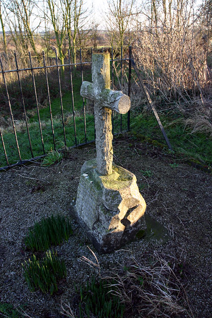 Mompesson's Memorial. William Mompesson helped the village of Eyam in the Great Plague of 1666, then was transferred to Eakring where he preached here, in the open air. He died in Eakring in 1706.